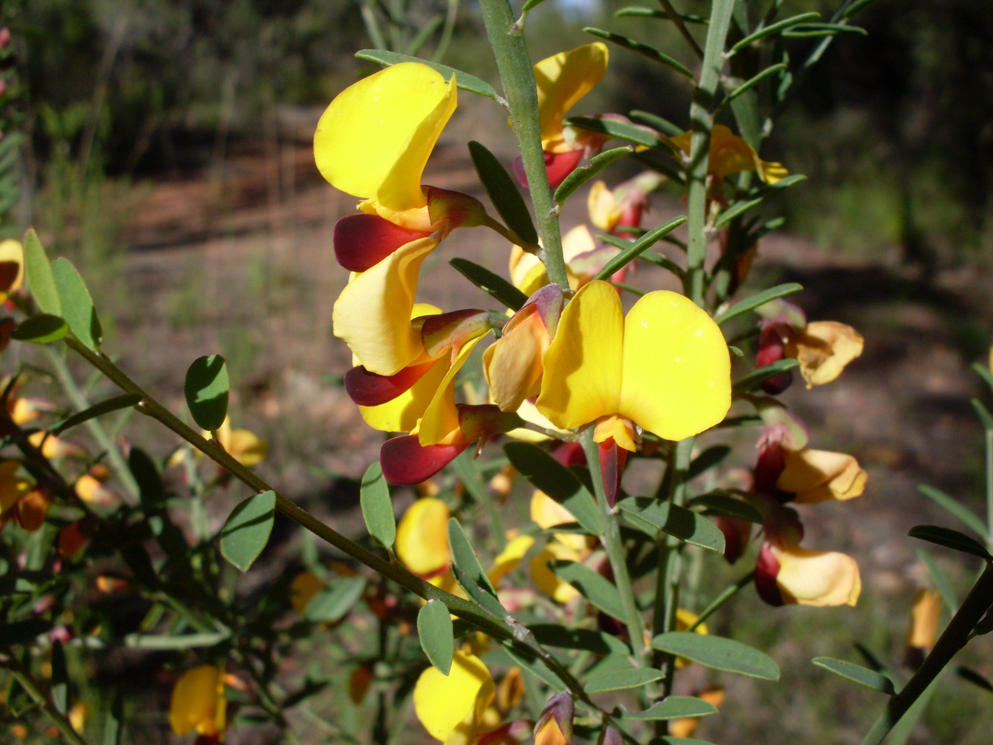 Variable Bossiaea (Bossiaea heterophylla). Heathcote National Park, NSW Australia, April 2009.